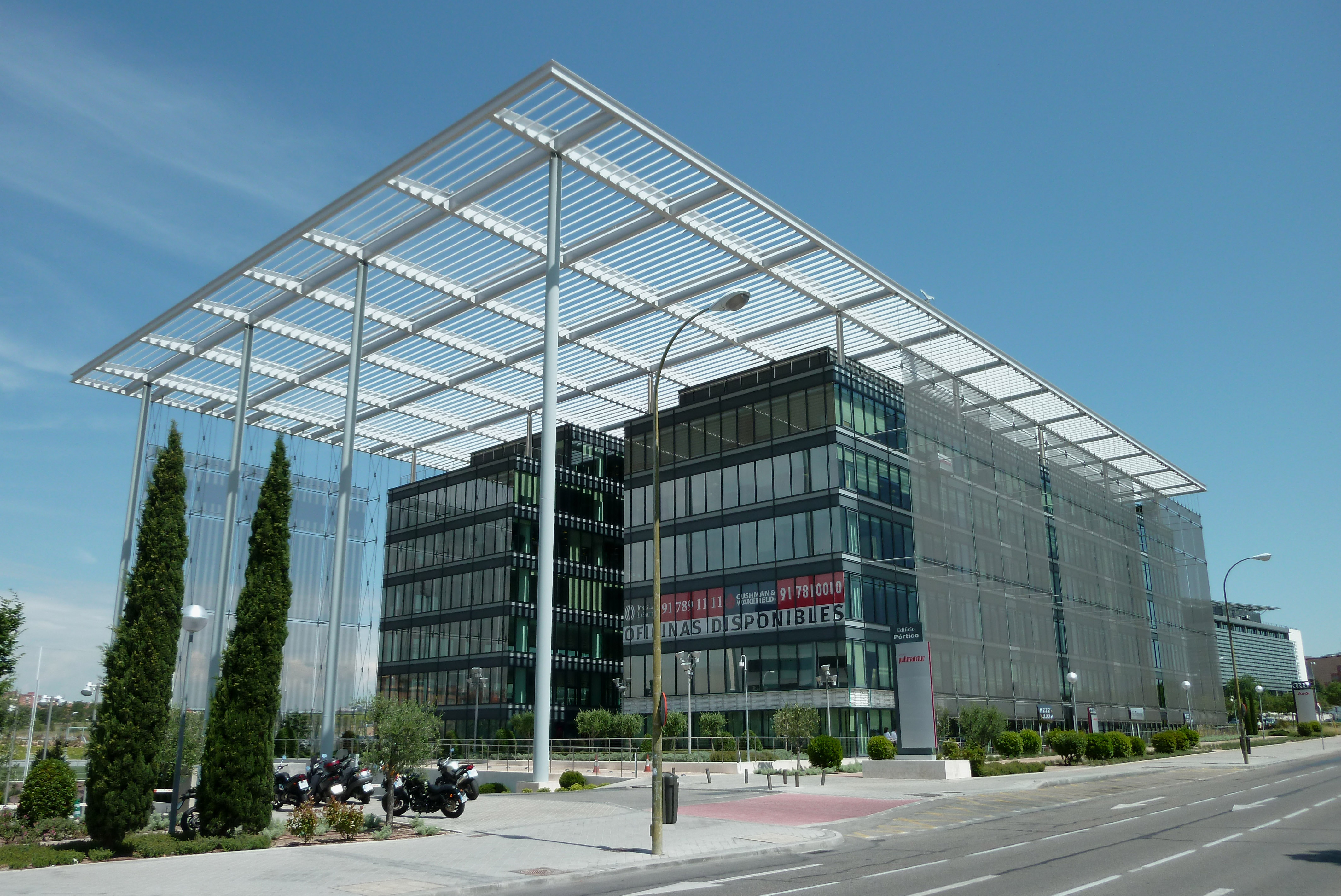 Façade of Portico Building in Madrid (Spain). It is home to Pullmantur Cruises' head offices.